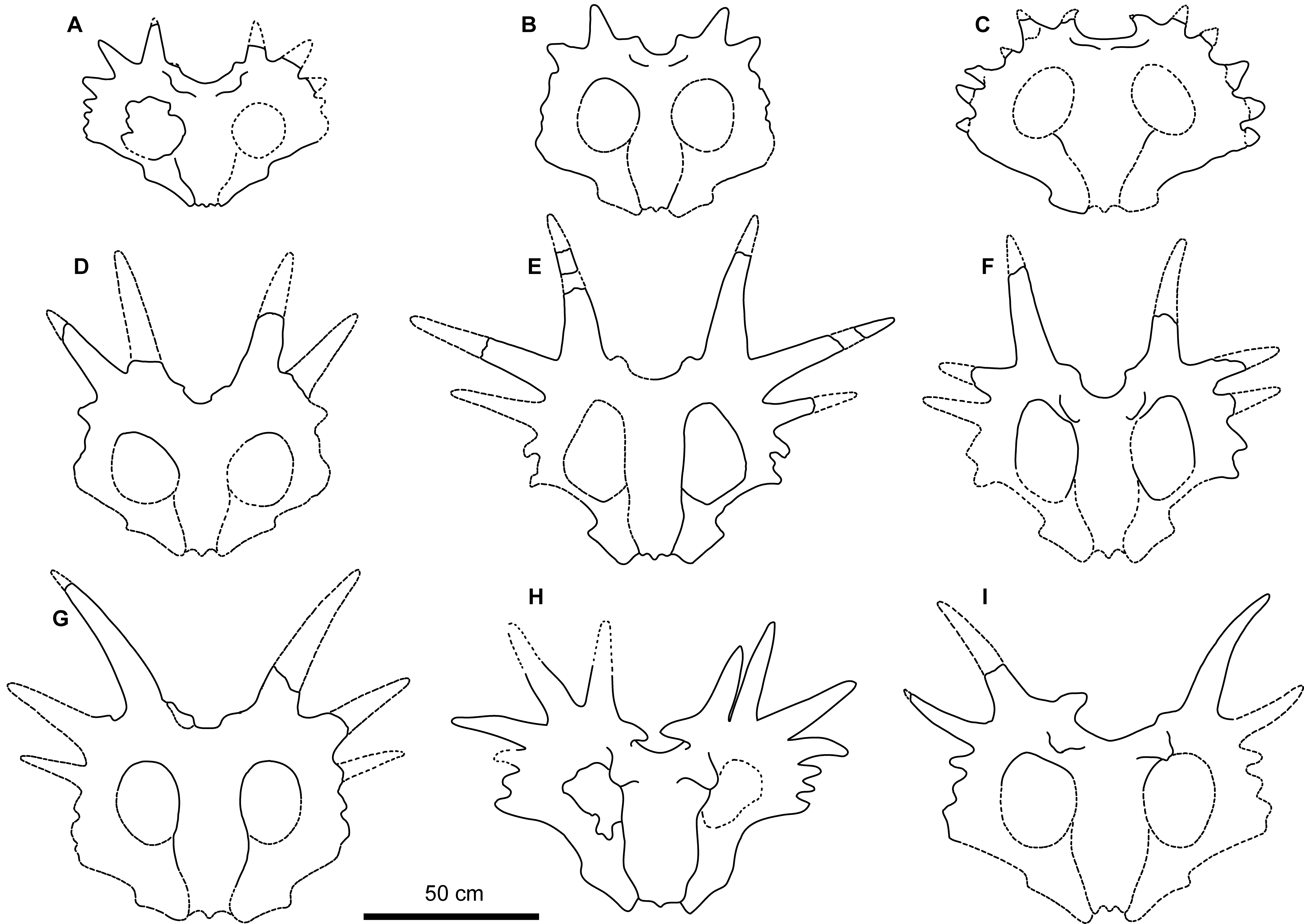 Reconstructed line drawings of the complete or relatively complete parietals of the centrosaurine ceratopsid Styracosaurus albertensis in dorsal (i.e., orthogonal to frill). Specimens are arranged in approximate order of increasing size of parietal ornamentation and size. A, TMP 2009.080.0001. B, TMP 1989.098.0001. C, TMP 1989.126.0001. D, TMP 1988.036.0020. E, CMN 344. F, TMP 2005.012.0058. G, TMP 1987.052.0001. H, UALVP 55900. I, ROM 1436. Based on development of the parietal ornamentation A−C represent subadult specimens, whereas D−I are regarded as largely skeletally mature. Scale bar = 50 cm.